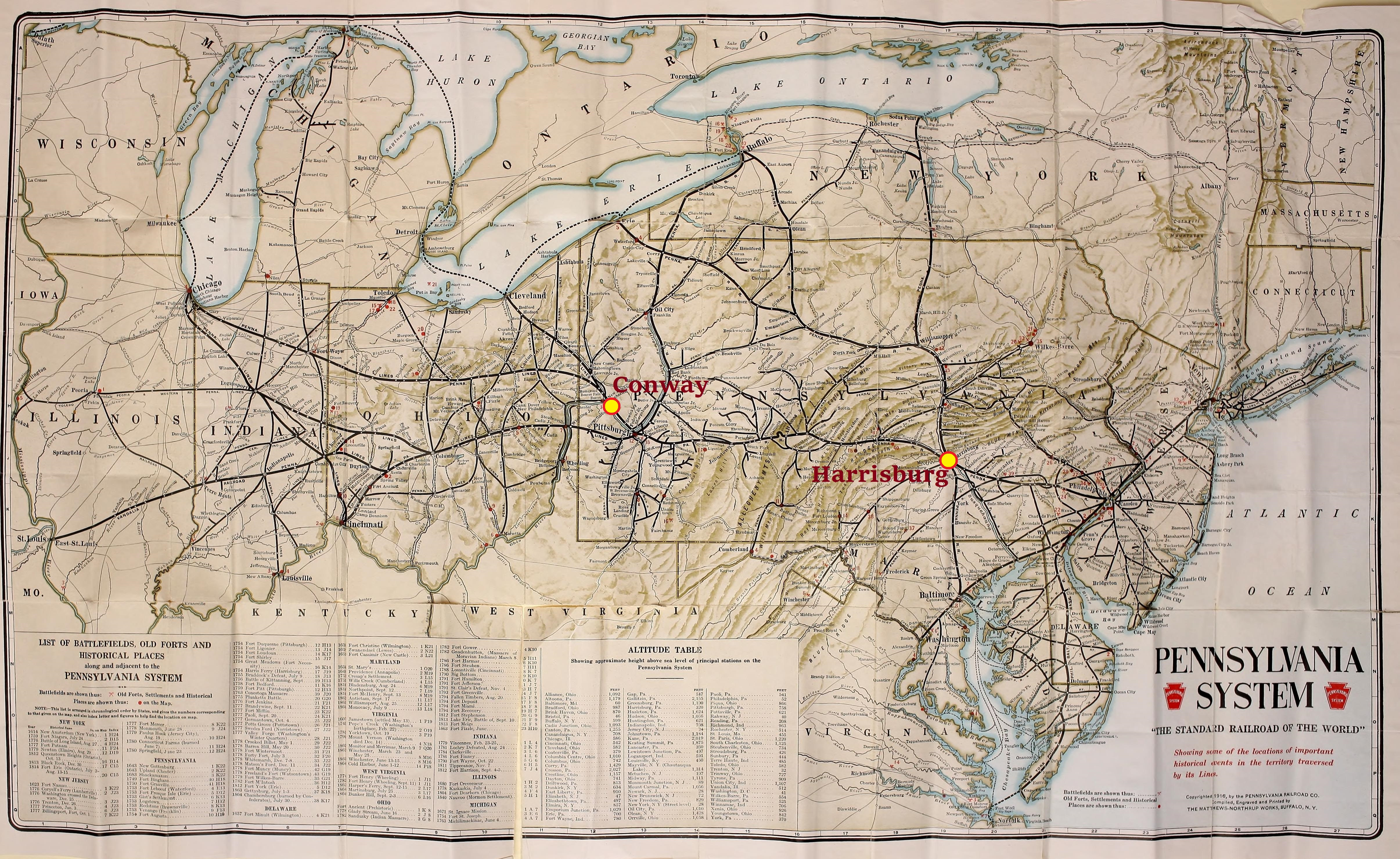 Pennsylvania Railroad System a description of its main lines and branches, with notes of the historical events which have taken place in the territory contiguous Marked are Harrisburg and Conway, points with big rail yards (Enola Yard and Conway Yard)